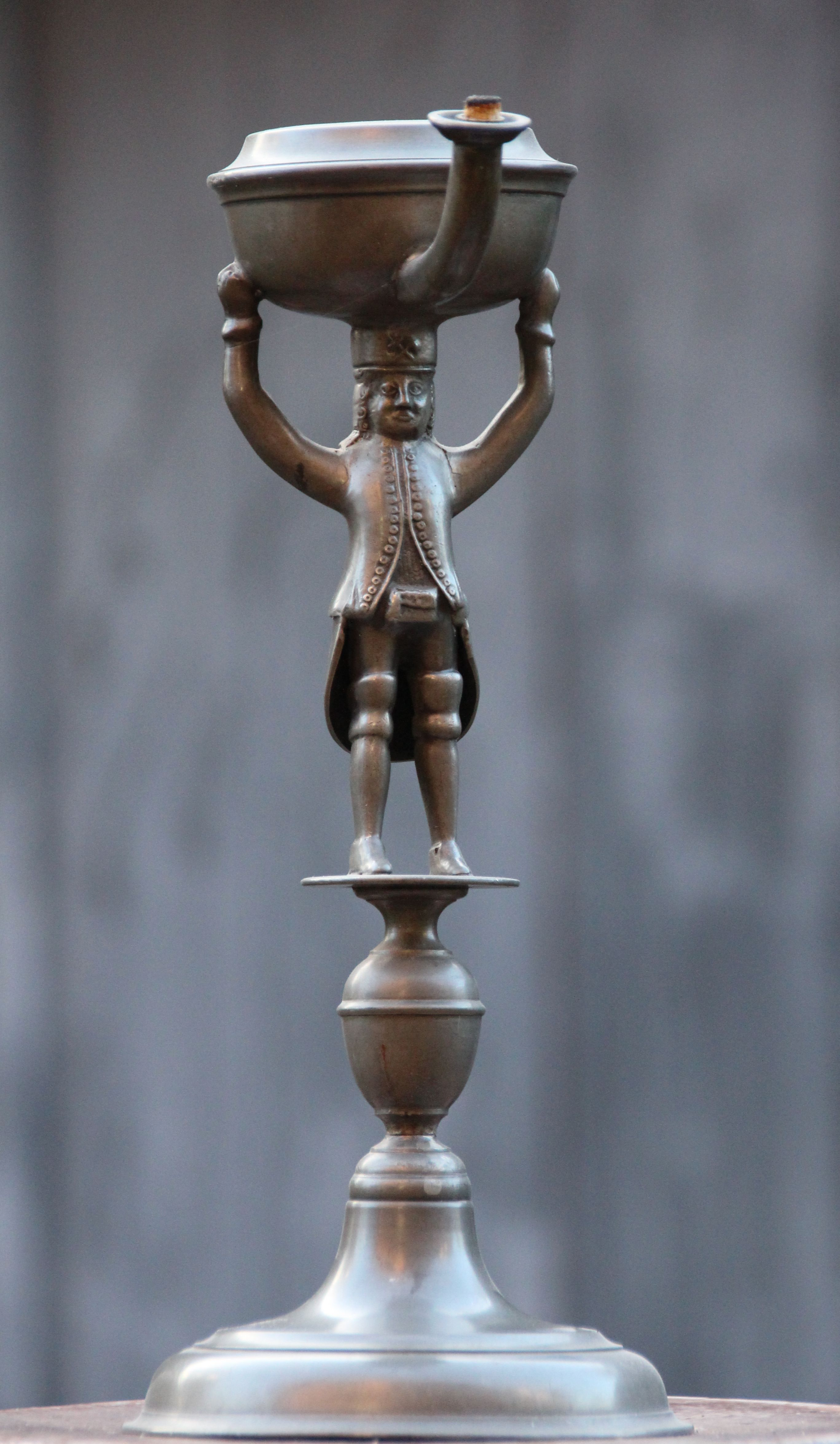 Statue of a miner as candlestick, made from tin in the Ore Mountains. High 27.5Centimetre. Dated with 1821 (engraved)